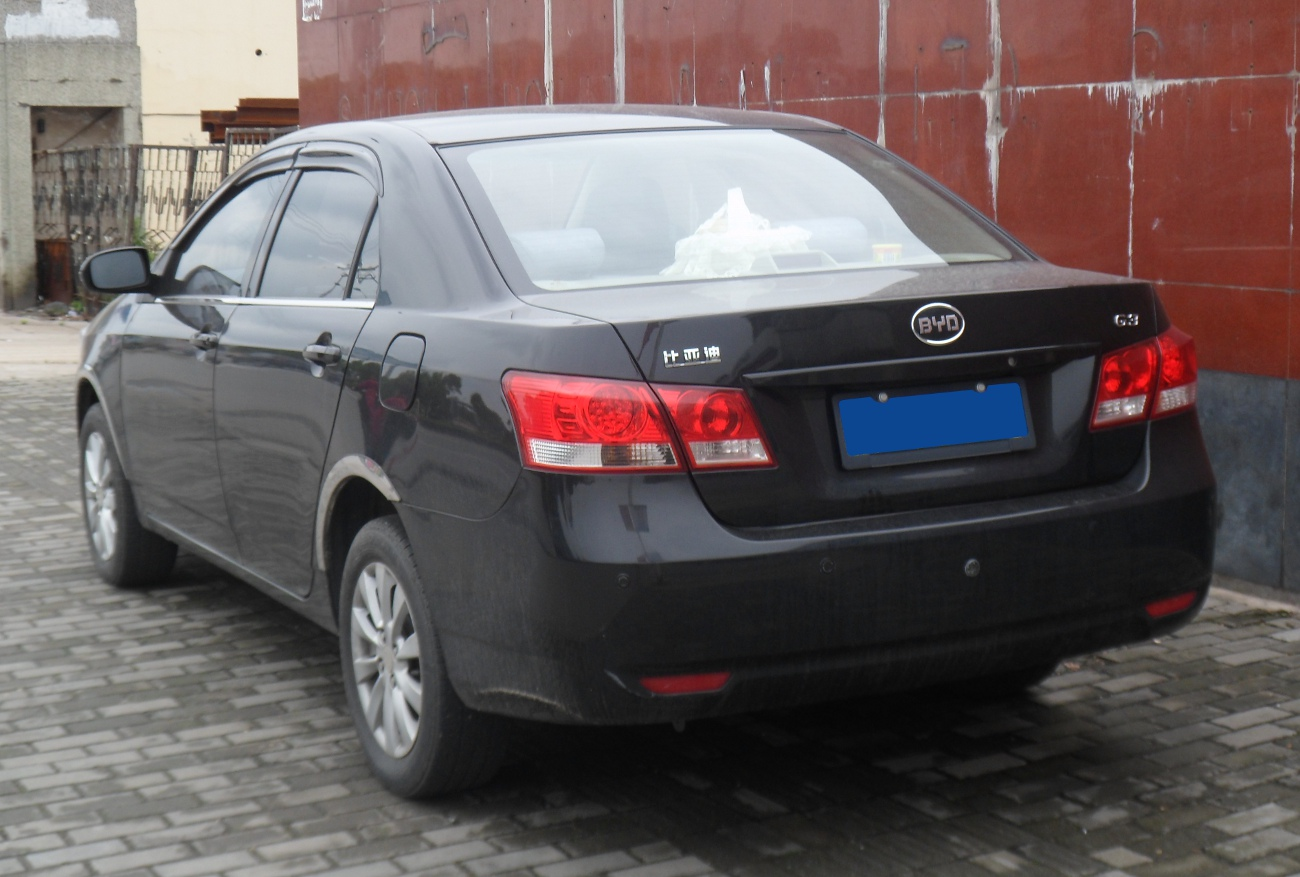 BYD G3 photographed in Shanghai, China.